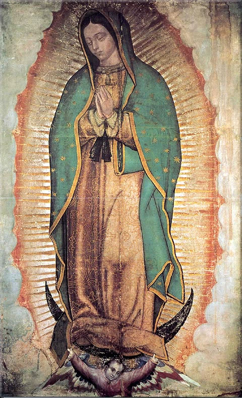 The Catholic Church considers the image of the Virgin of Guadalupe imprinted on the cloak of Juan Diego as a picture of supernatural origin.